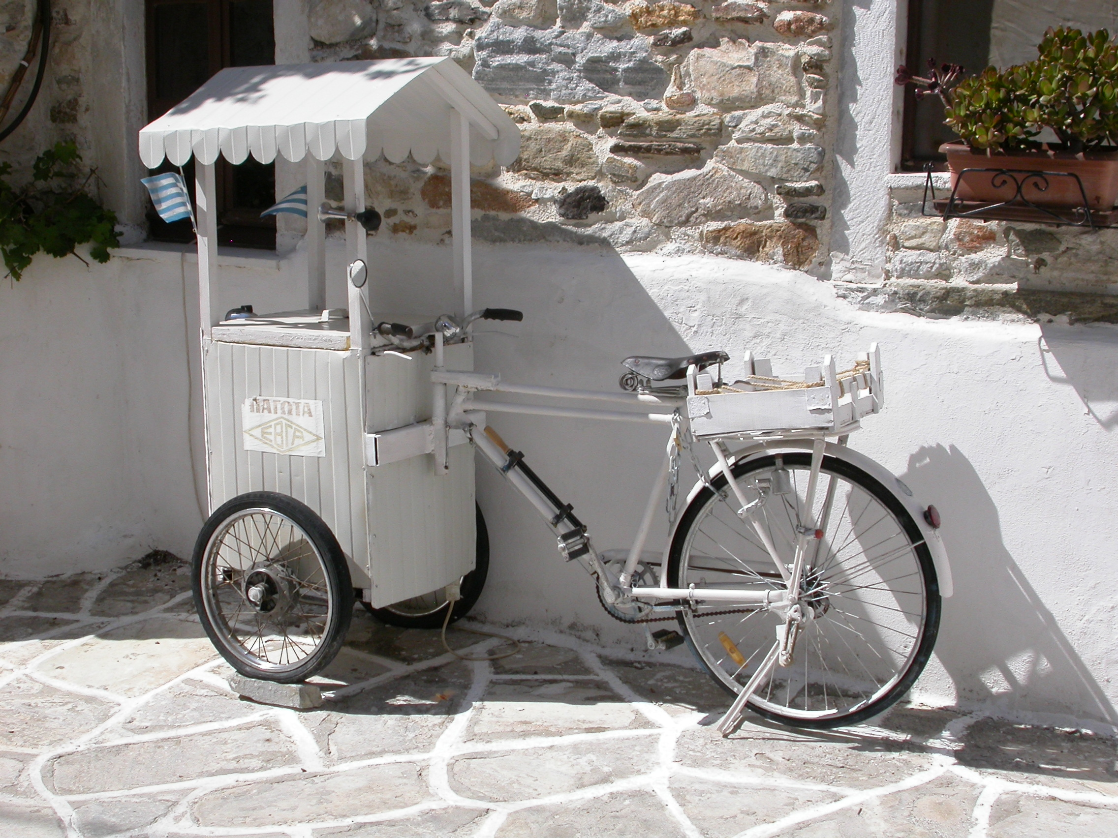 Folklore Museum Florios Chorianopoulos at Kaloxilos, Naxos, Cyclades, Greece